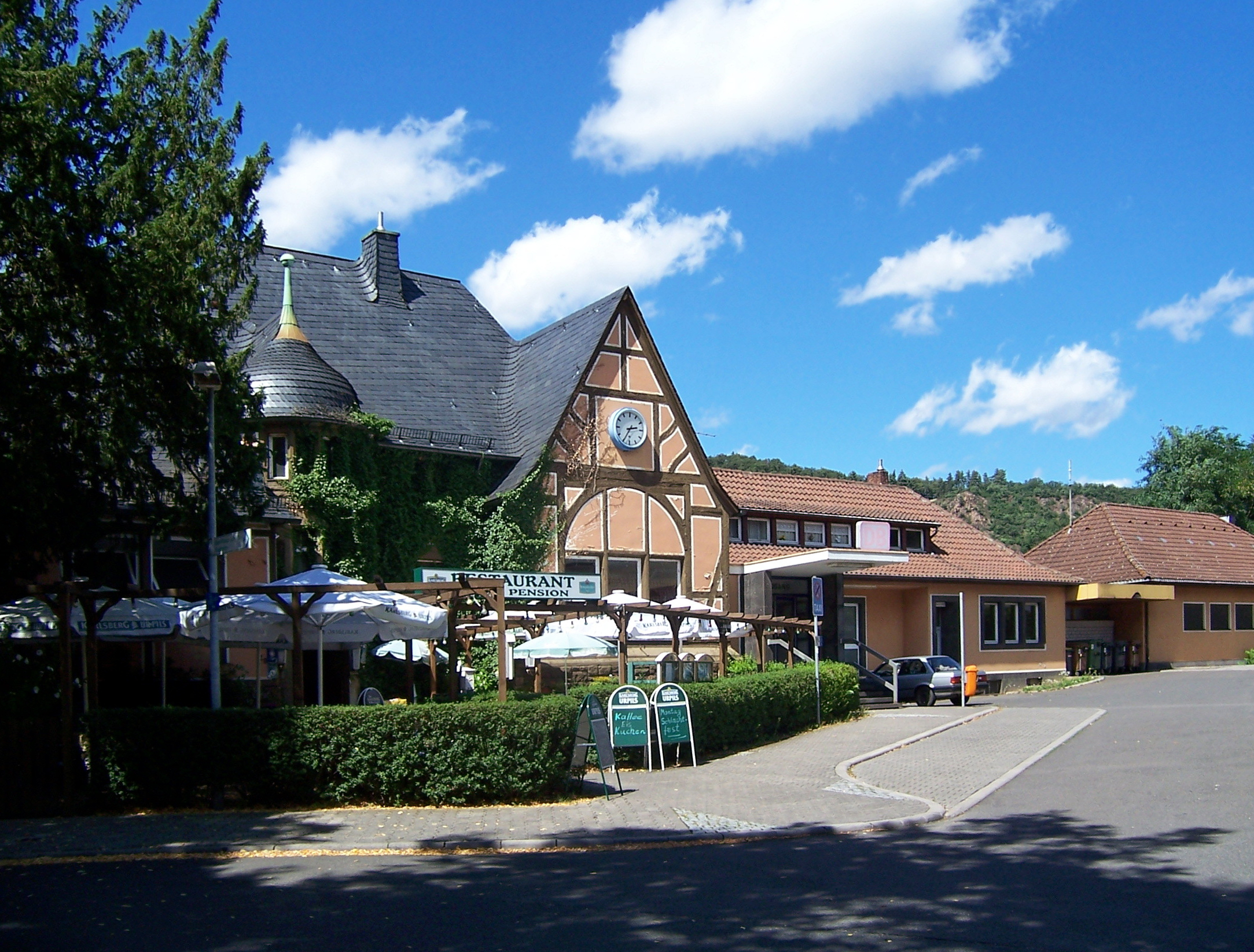 Train station of Bad Münster am Stein-Ebernburg